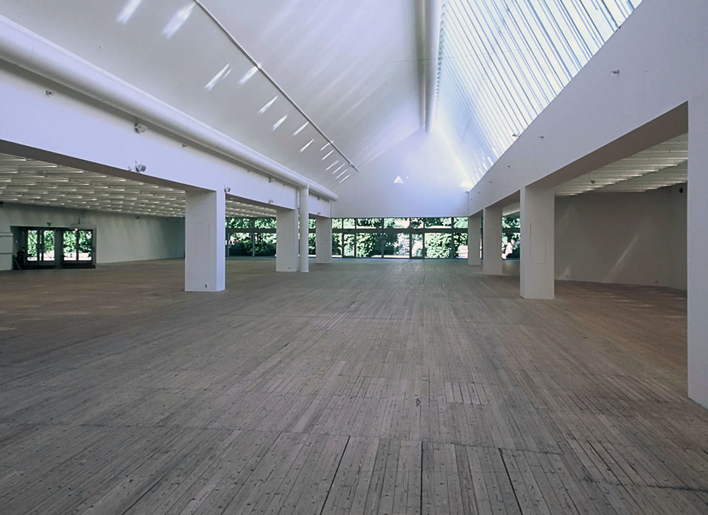 Malmö konsthall, main exhibition room. Klas Anshelm-en Malmö-ko museoa: Klas Anshelm's konsthall in Malmö opened in 1975 Camera: AgfaPhoto GmbH d-lab.2/3 License on Flickr (2010-12-27): CC-BY-SA-2.0 Flickr tags: klas, anshelm, sweden, malmo, architecture, arquitectura, suecia, arkitektura